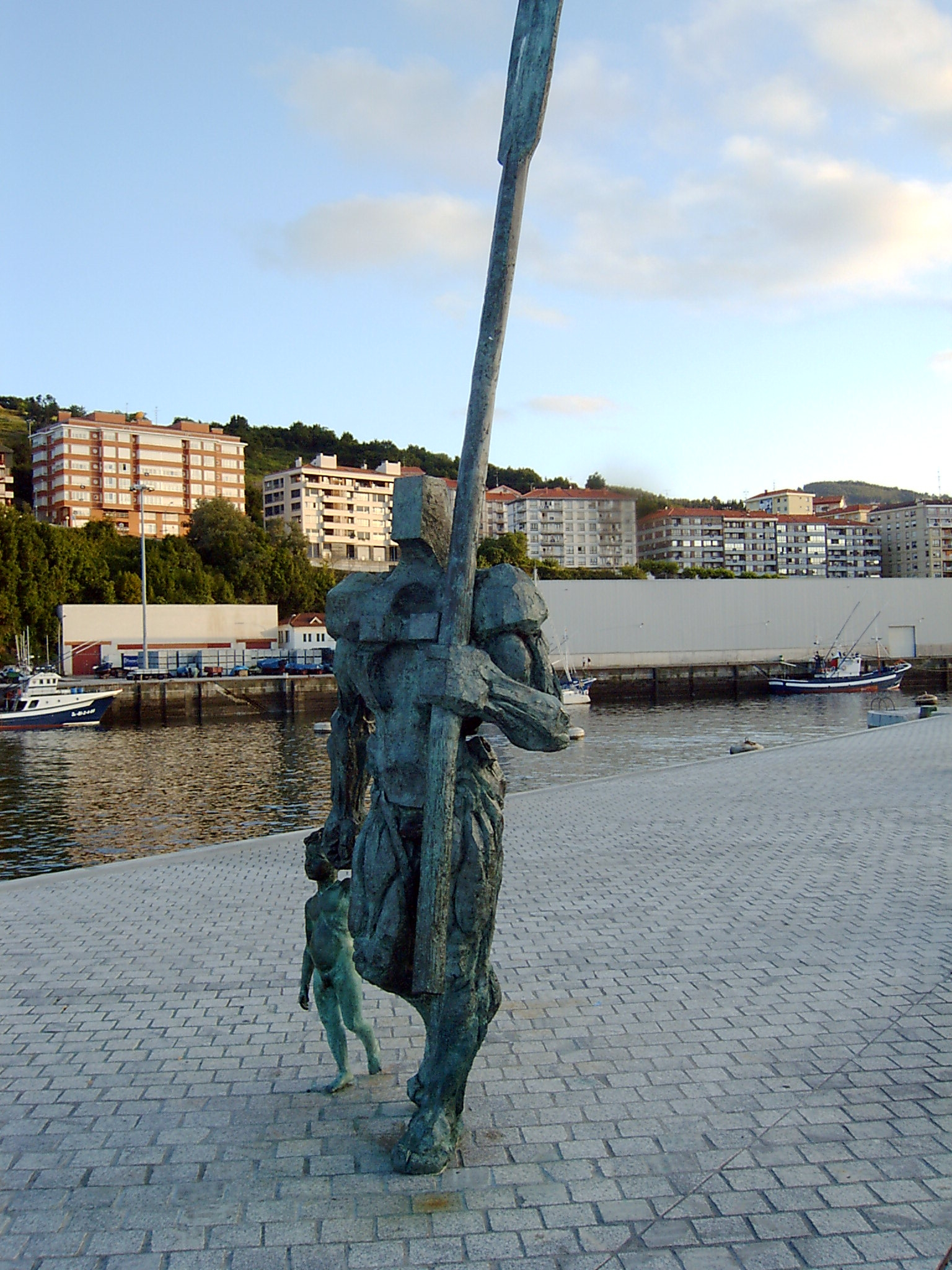 Itzulera by Casto Solano (1992) originally for the Universal Exposition of Sevilla.